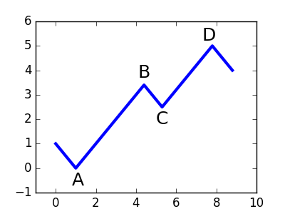 Rainflow counting is a technique used in calculating the fatigue life of a component that extracts equivalent fully fatigue cycles from and arbitrary variable amplitude sequence of loads. Any pair of turning points B,C that lie between adjacent points A and D is a rainflow cycle. Count and eliminate the pair B,C and continue processing the sequence until no more cycles can be extracted.